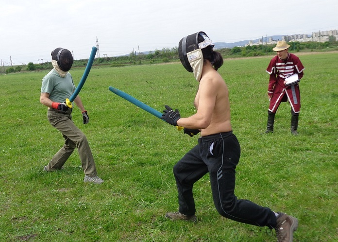 A sabre fencing competition (2017) in Miskolc, Hungary.